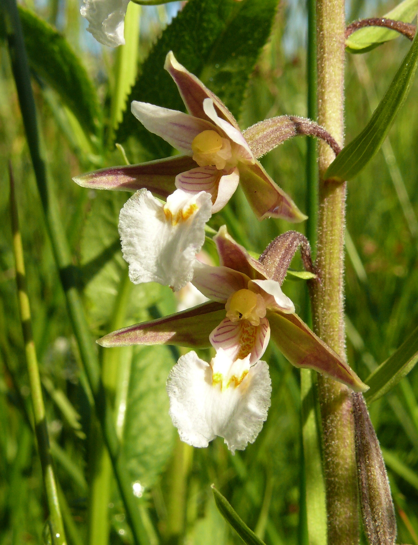 Epipactis palustris, Virngrund, Germany